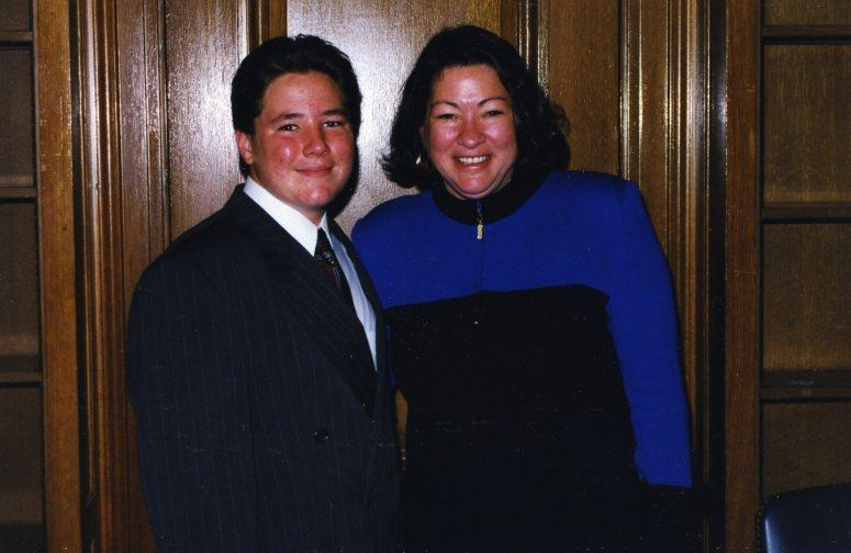 Judge Sonia Sotomayor with godson Thomas “Tommy” Butler at the United States Court of Appeals signing ceremony in 1998. Part of a slide show, "Sotomayor Bio: Picutures from Throughout Judge Sotomayor's Life" According to the May 2009 White House copyright policy, "Except where otherwise noted, third-party content on this site is licensed under a Creative Commons Attribution 3.0 License." No alternative licensing information is given for these photos, so they are assumed to be available under the Creative Commons Attribution 3.0 License.